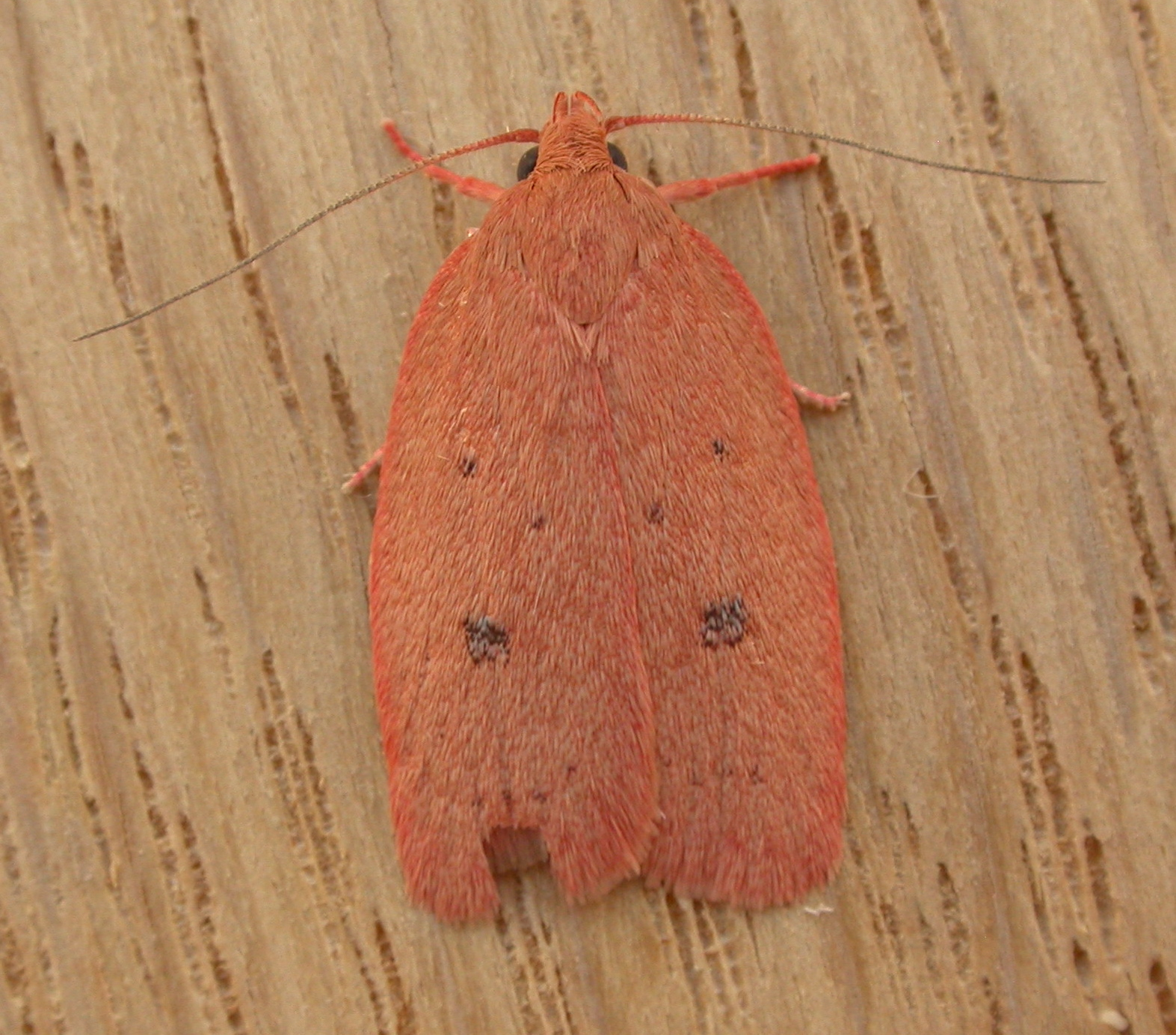 Garrha pudica (Zeller, 1855), to light, Aranda, ACT, 16 February 2009